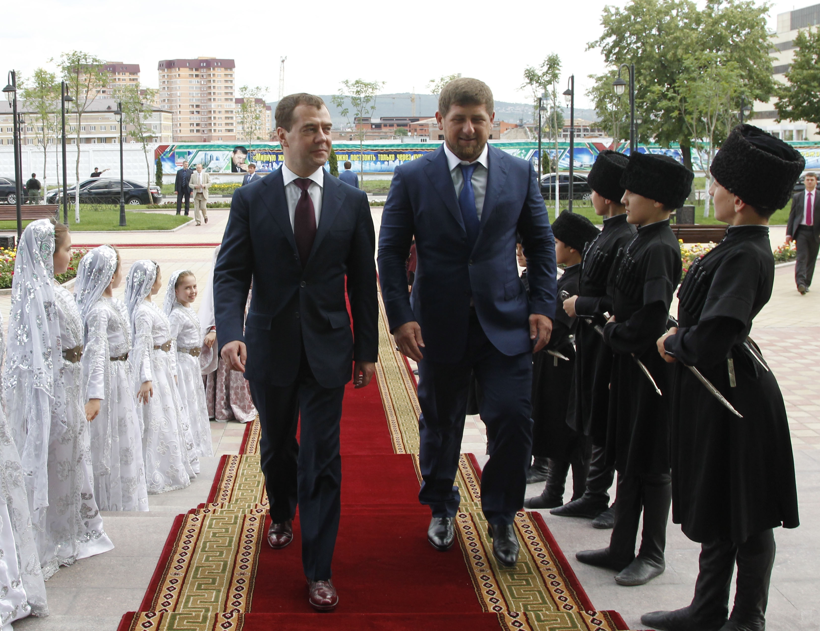 Russian Prime Minister Dmitry Medvedev and the Head of the Chechen Republic Ramzan Kadyrov at the opening ceremony of a new building of the Mikhail Lermontov Russian Drama Theater in Grozny, Chechen Republic.